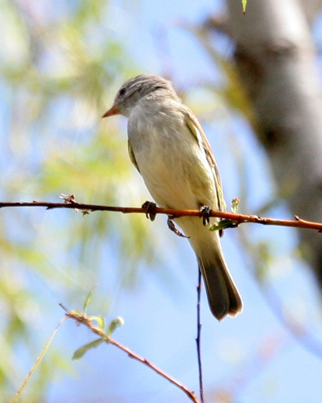 Southern Beardless Tyrannulet, Esteros del Iberá, Argentina